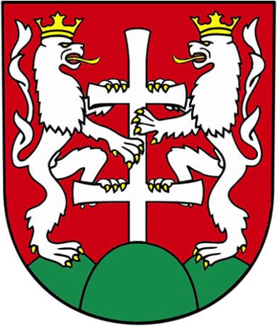 Coat of arms of Levoča, Slovakia